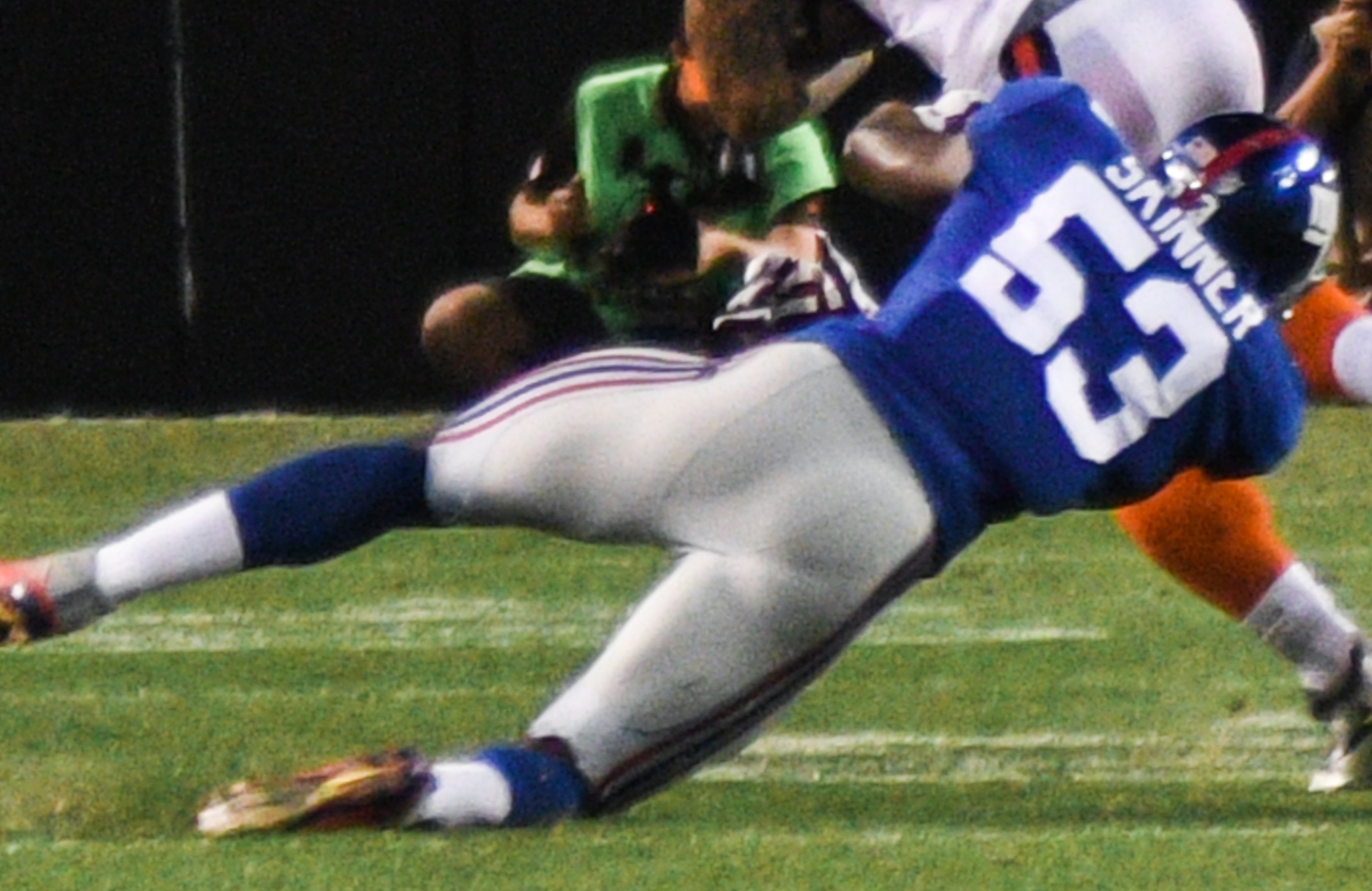 Cleveland Browns vs. New York Giants